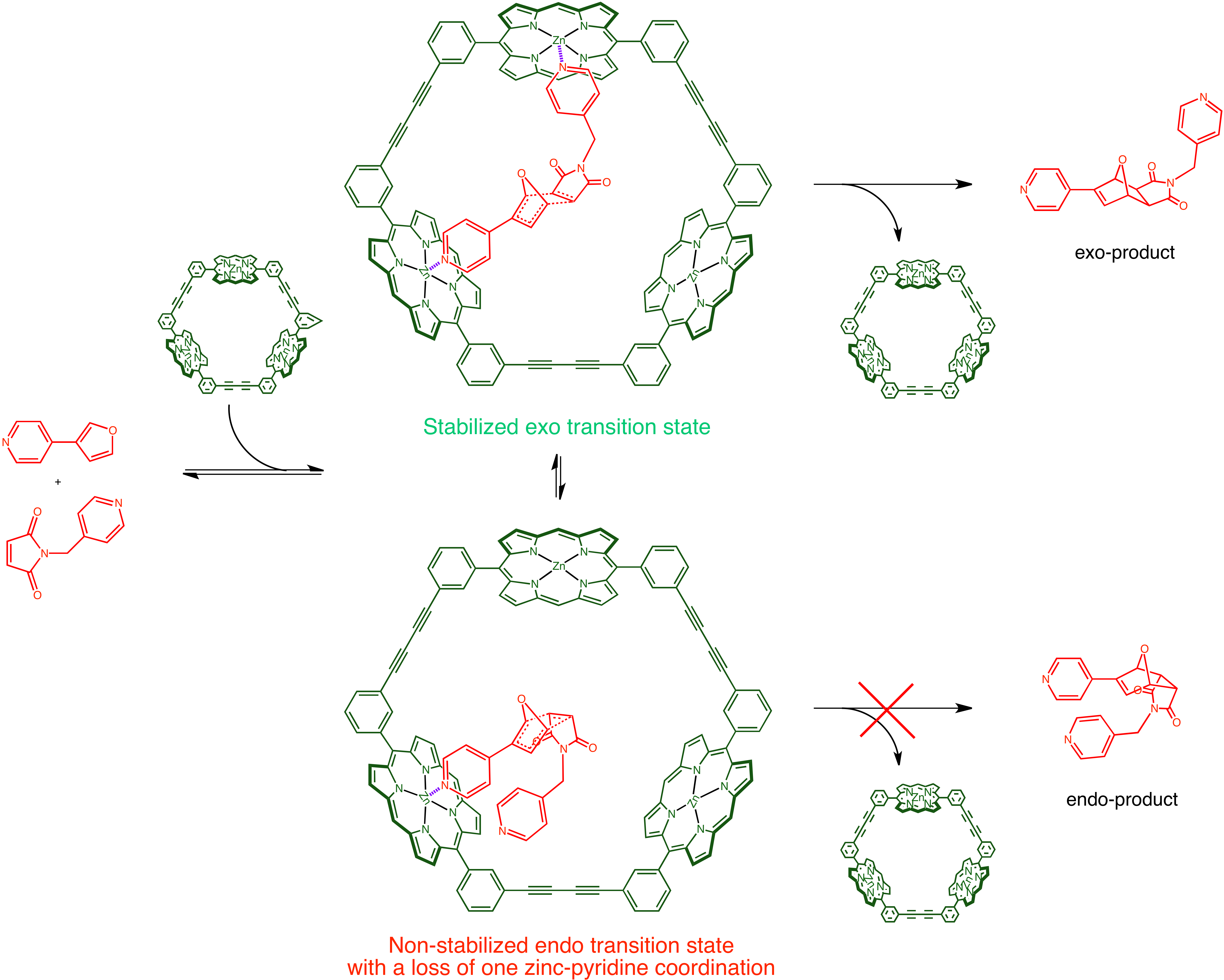 Diels-Alder reaction selectivity switches to exo in the presence of Sanders' porphyrin trimer catalyst.